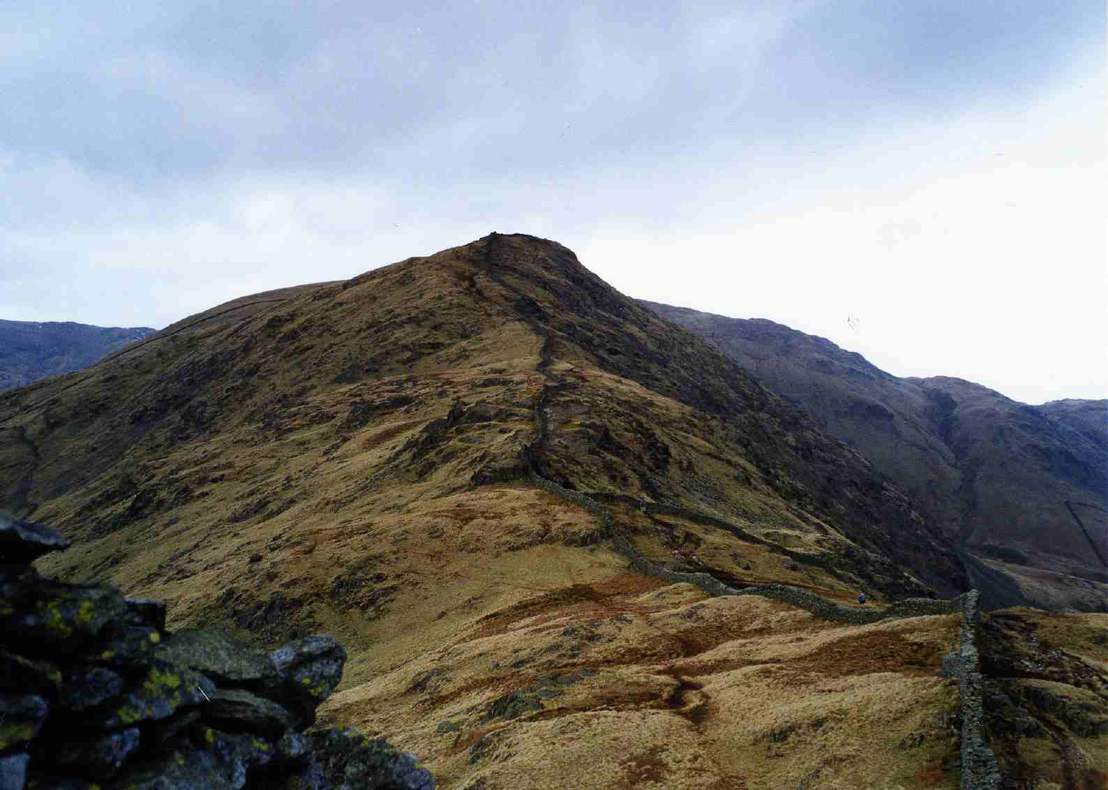 Looking up to High Pike from Low Pike. Personal photograph taken by Mick Knapton in March 1994